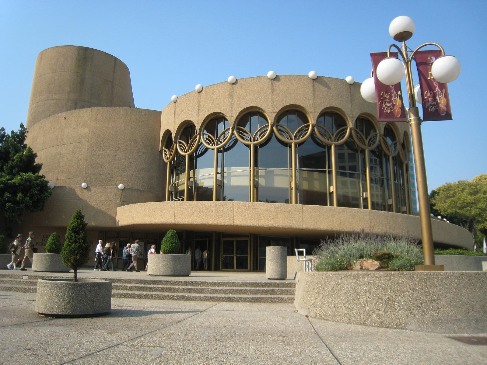 255 Almaden Blvd, San Jose, CA 2665 seats Architect William Wesley Peters 255 Almaden Blvd, San Jose, CA 2665 seats Architect William Wesley Peters Built 1972 THSA Conclave 2008 255 Almaden Blvd, San Jose, CA 2665 seats Architect William Wesley Peters Built 1972 THSA Conclave 2008